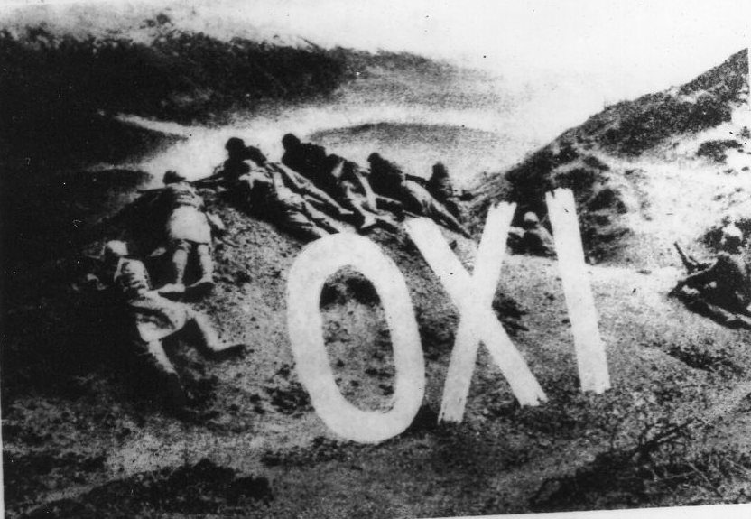 "No|, poster against Italian fascism This media file is produced by Wikipedian in Residence in Category:Wikipedian in Residence at DARM in 2016.